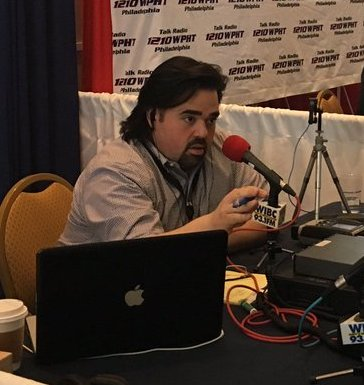 Waiting to join @tonykatz live @CPAC to discuss my upcoming panels on Medicare and Entitlements. #CPAC2016